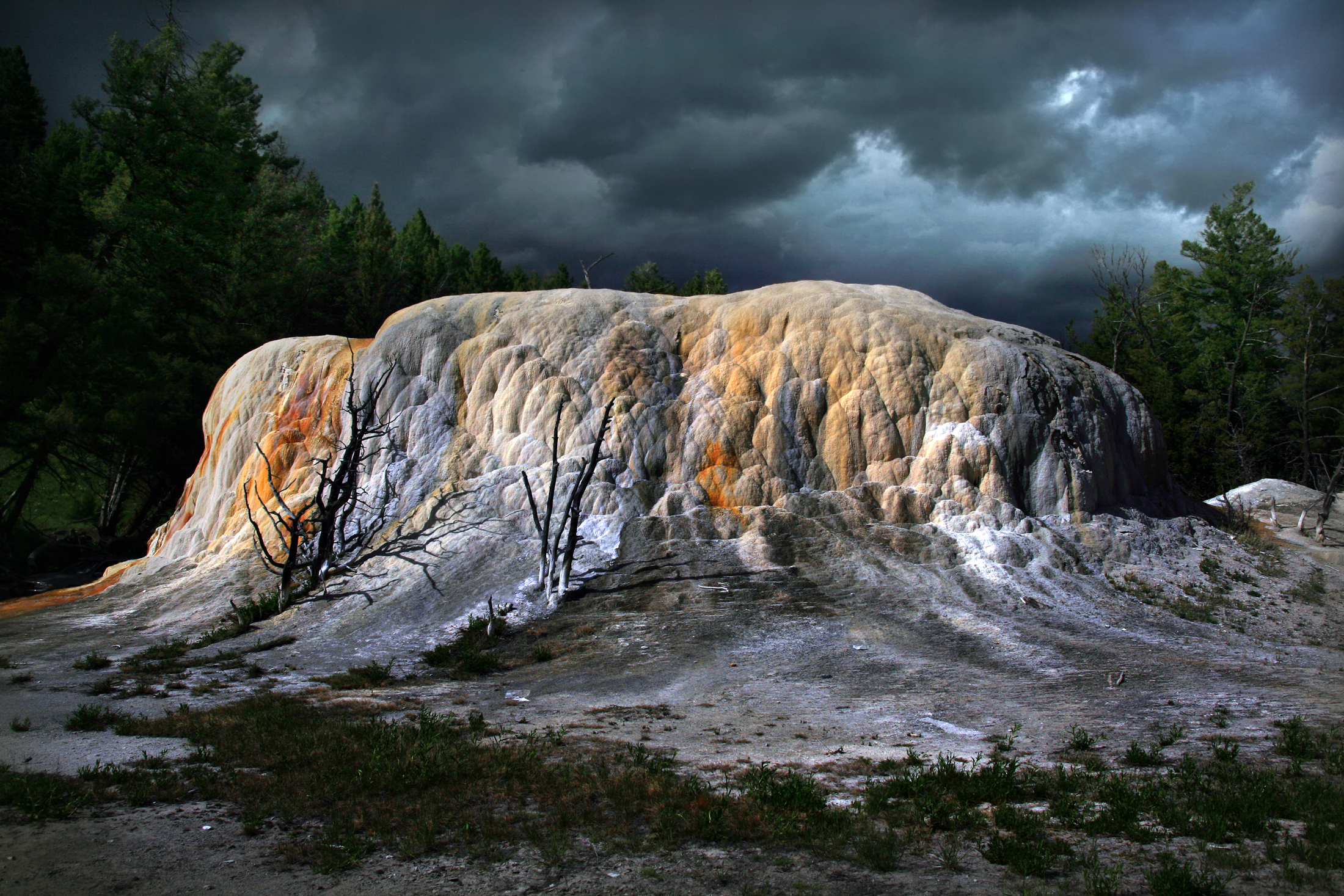 Dead trees at Orange Spring Mound at Mammoth Hot Springs, Yellowstone National Park. Bacteria and algae create the streaks of color on Orange Spring Mound. It is noticeably different from many of the other terrace formations nearby. Its large mounded shape is the result of very slow water flow and mineral deposition.